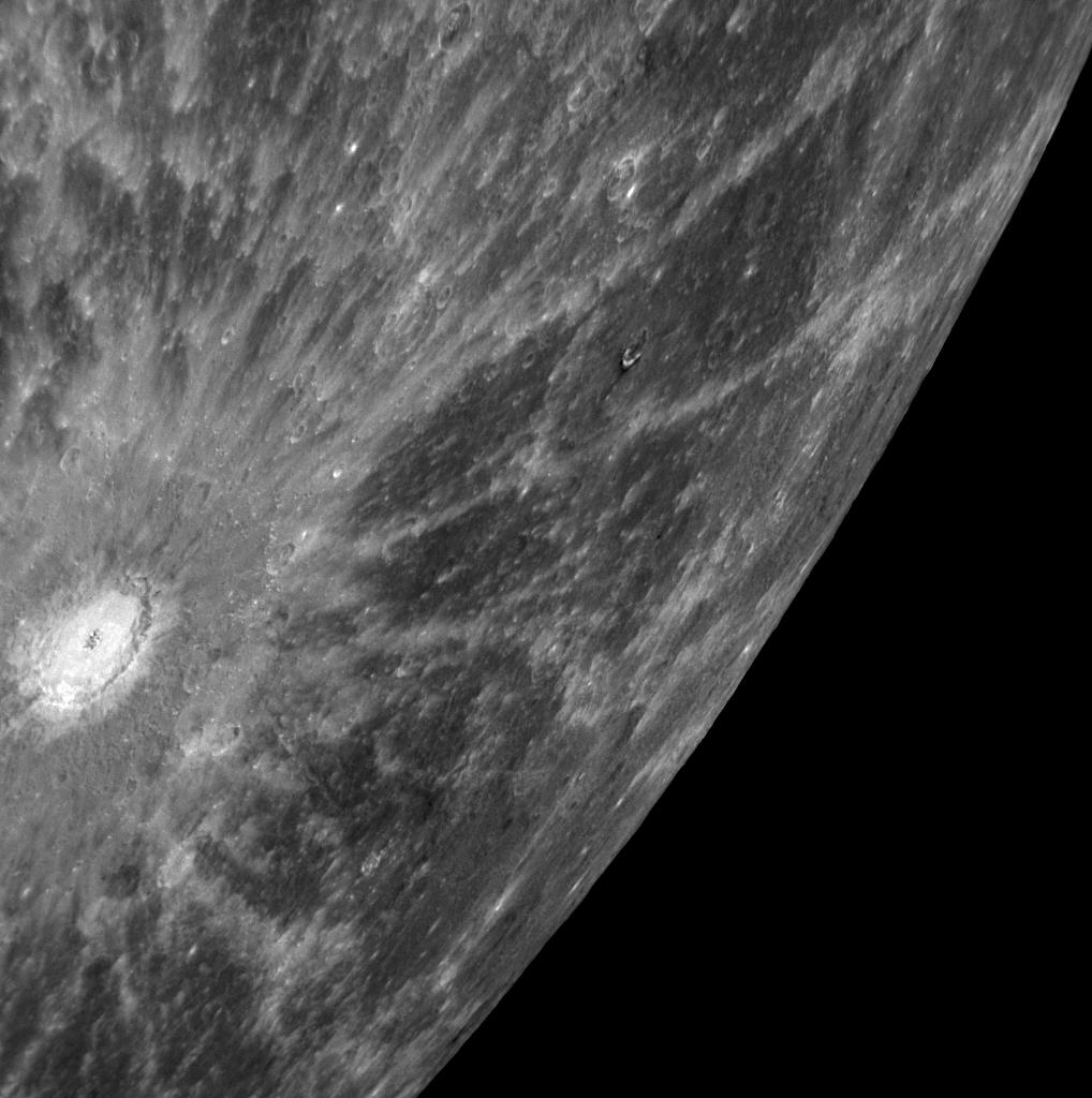 Debussy rayed crater in the southern hemisphere of Mercury.